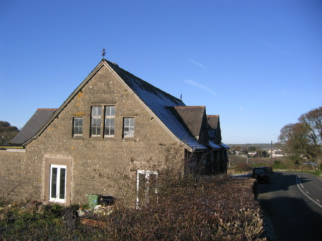 Great Clifton former Mission (church)Room now bypassed these mission rooms have now been converted to a single dwelling.